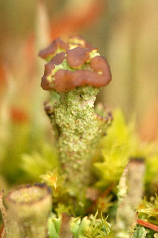 Cladonia from Commanster, Belgium. If you think this is a different taxon, please contact James Lindsey.